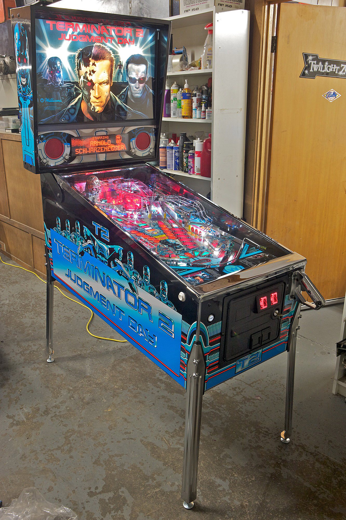 T2 never looked so beautiful! It also plays as good as it looks.